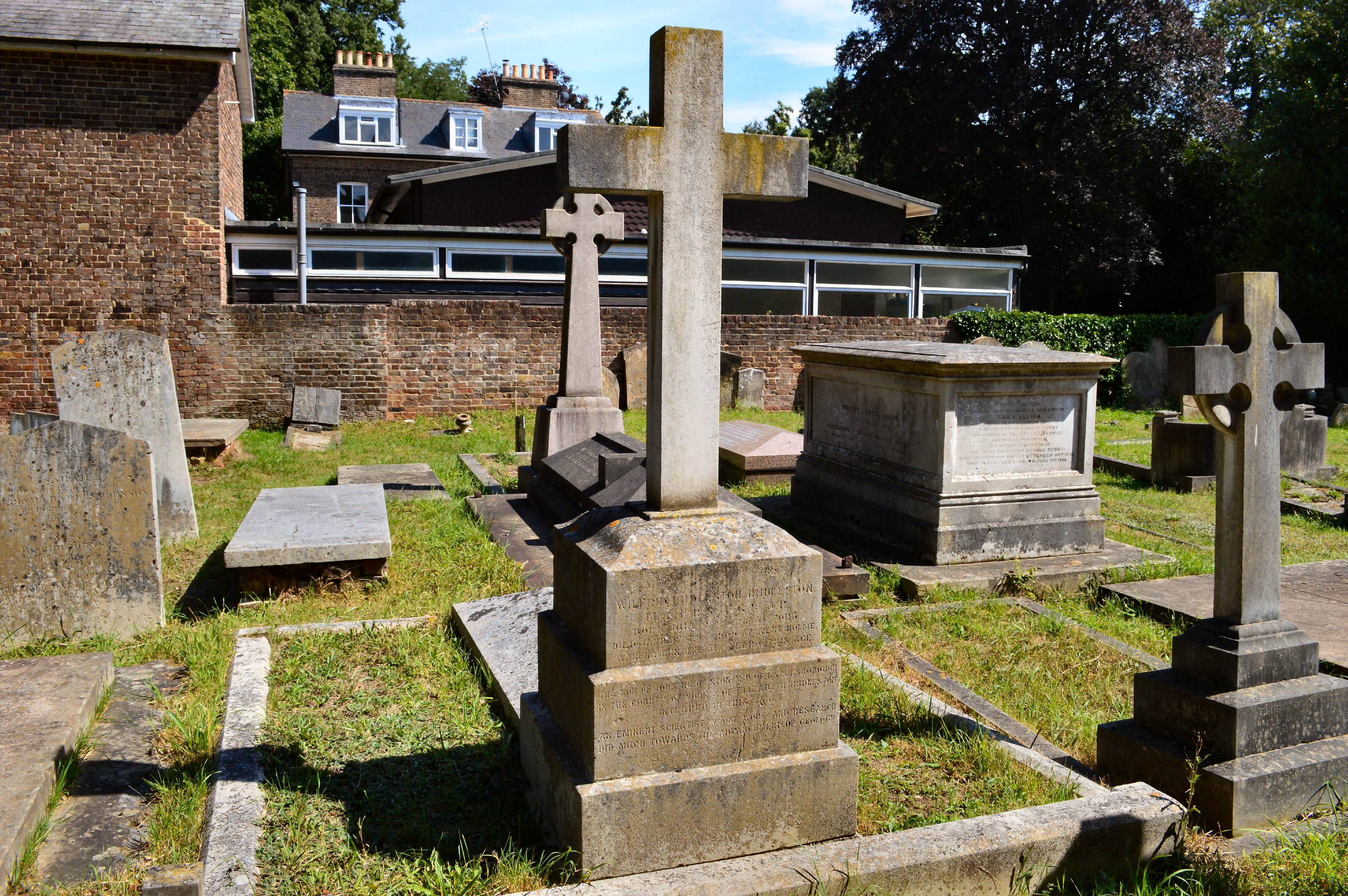 St Andrew's Church, Ham - tomb for Wilfred Hudleston Hudleston MA, FRS, FGS, JP (d 1909). "An eminent scientist whose work and research did much towards the advancement of Geology".